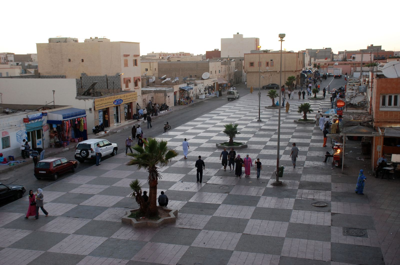 Dakhla, Western Sahara, pedestrian zone